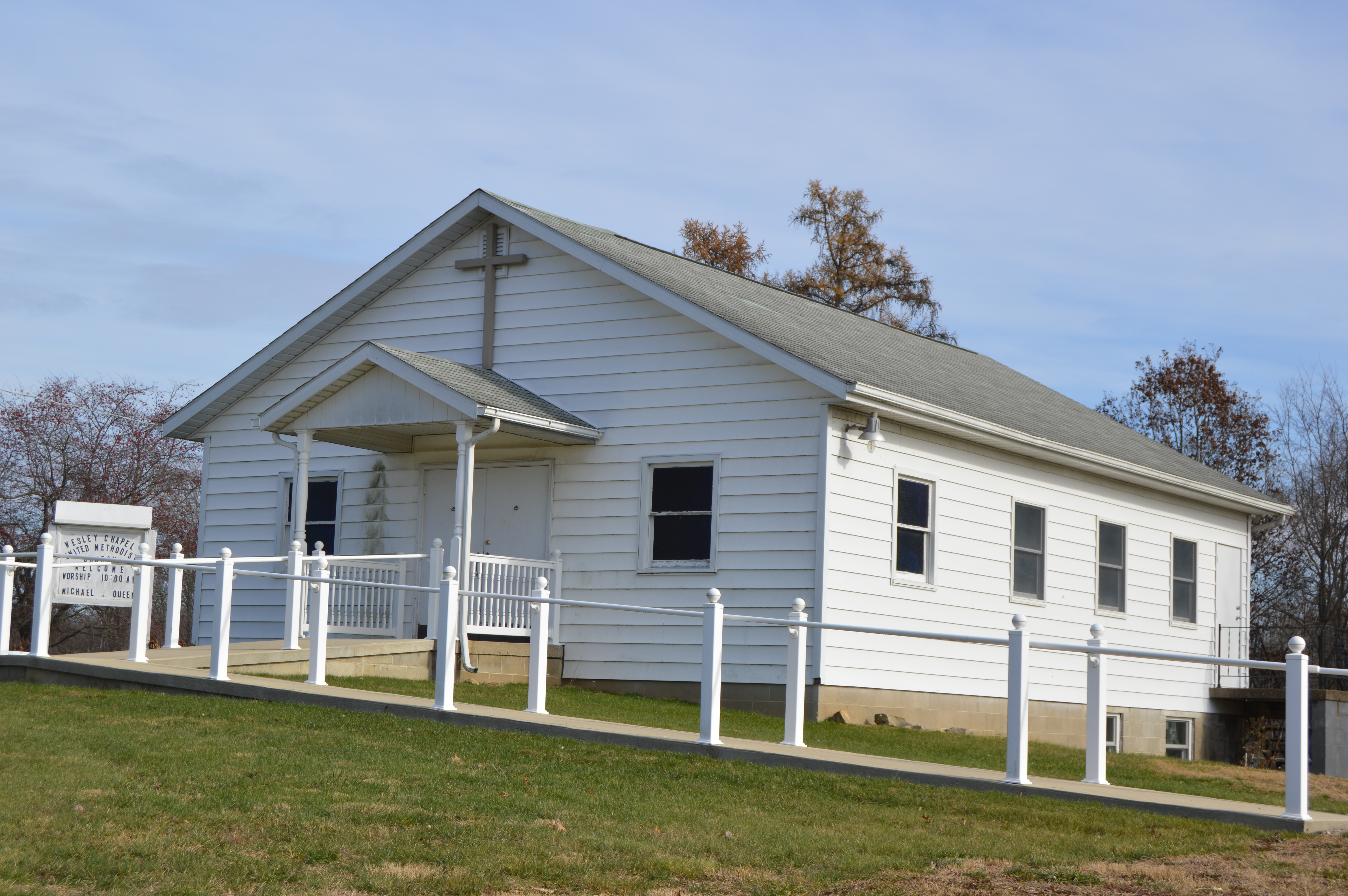 Front and southern side of Wesley Chapel United Methodist Church, located on Wesley Chapel Road east of Somerset in Clayton Township, Perry County, Ohio, United States.